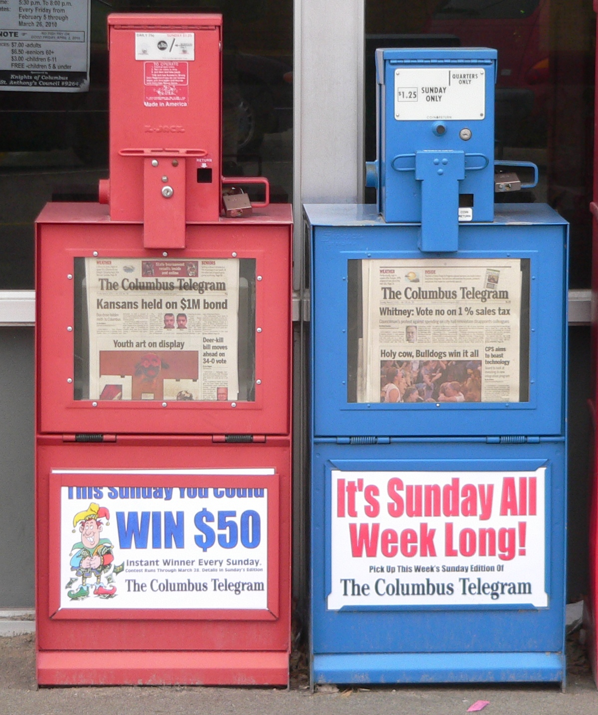 Columbus Telegram vending machines in front of the newspaper's offices at 1254 27th Avenue, Columbus, Nebraska.